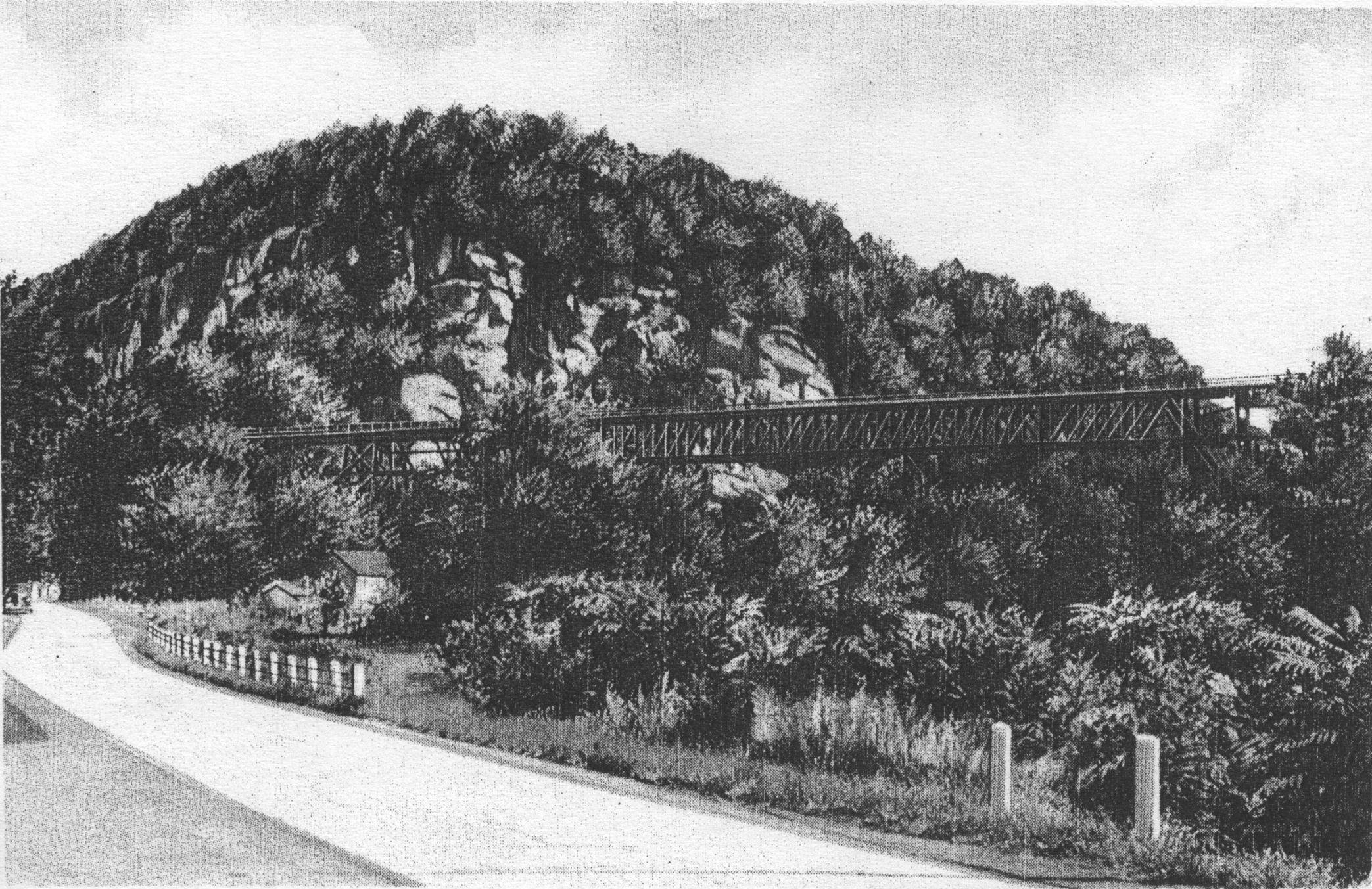 Joppenbergh Mountain, shown northeast of the railroad bridge in Rosendale, New York.